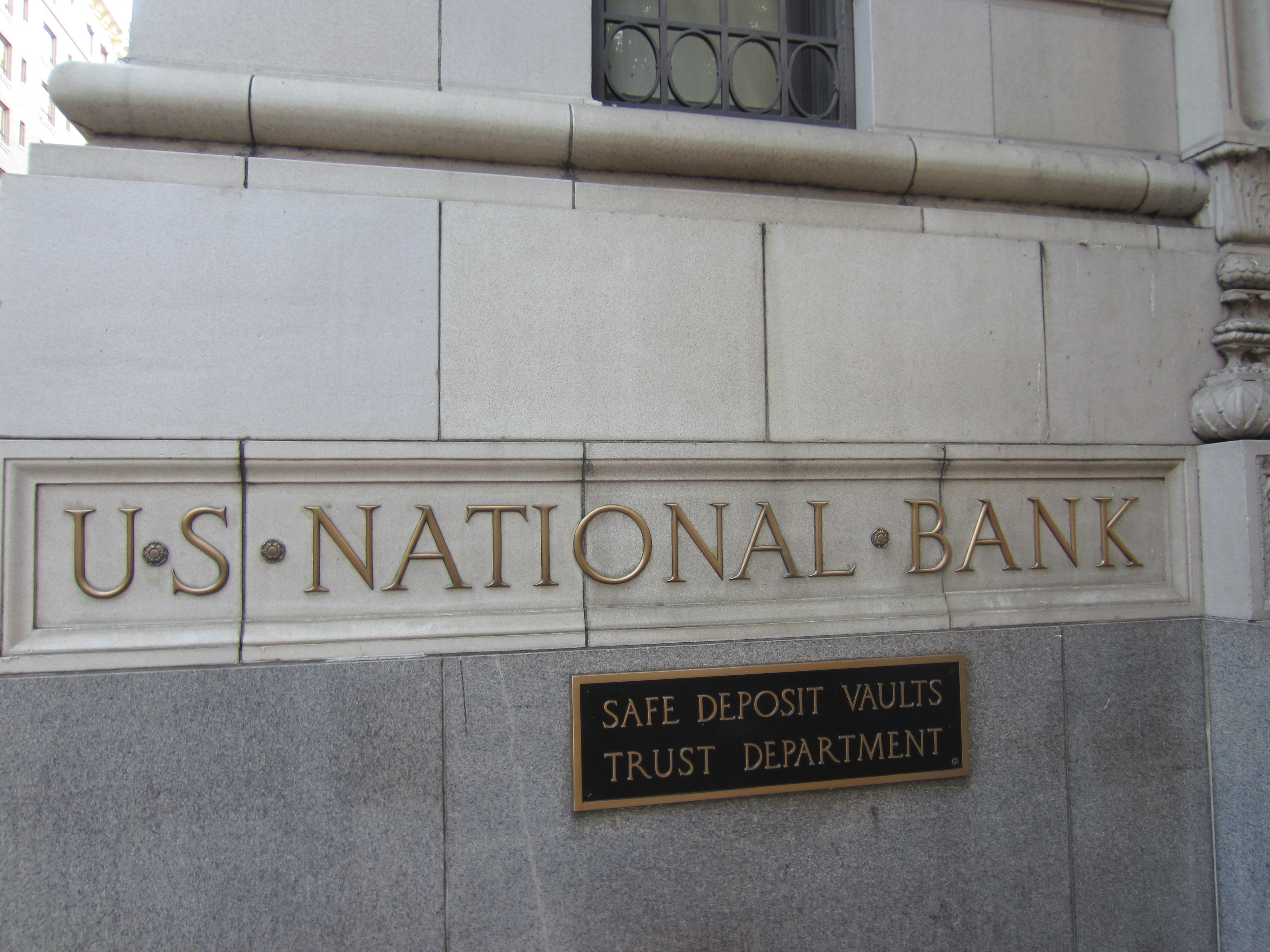 United States National Bank Building, Portland, Oregon (2012)